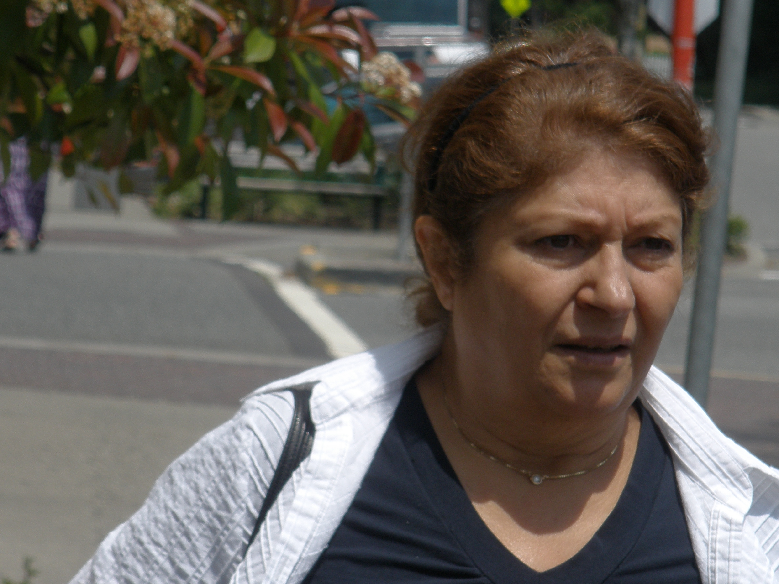 This is a photograph of the artist Guity Novin (Navran). I took this photo in North Vancouver on the occasion of an exhibition of the artist's work in the CityScape Community Art Gallery.